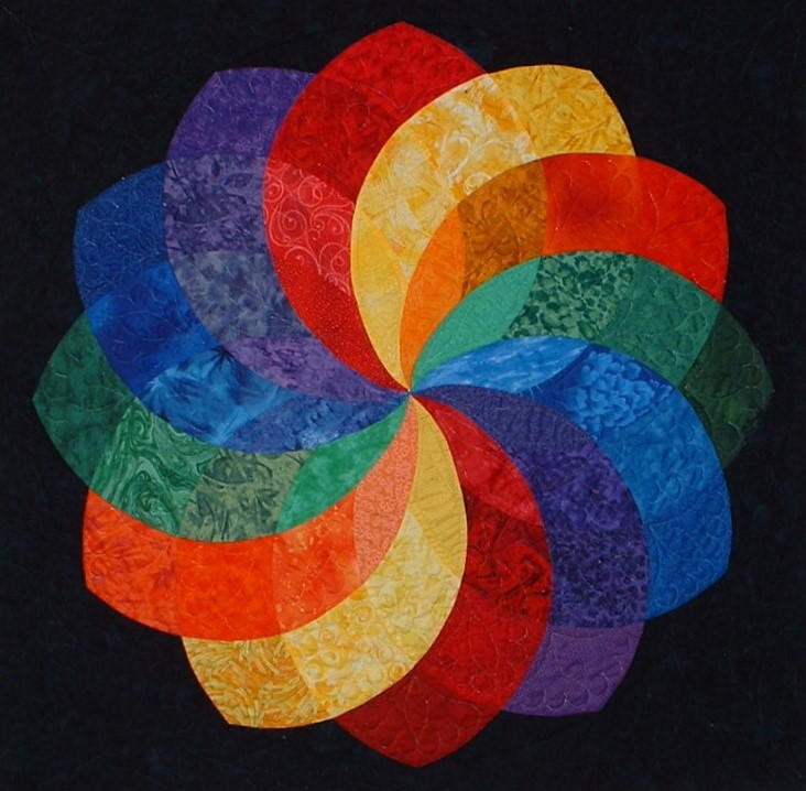 Rainbow Dahlia, a quilt created by Holice Turnbow.